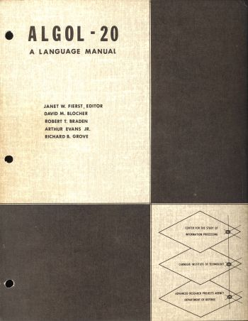 Priručnik za programski jezik Algol